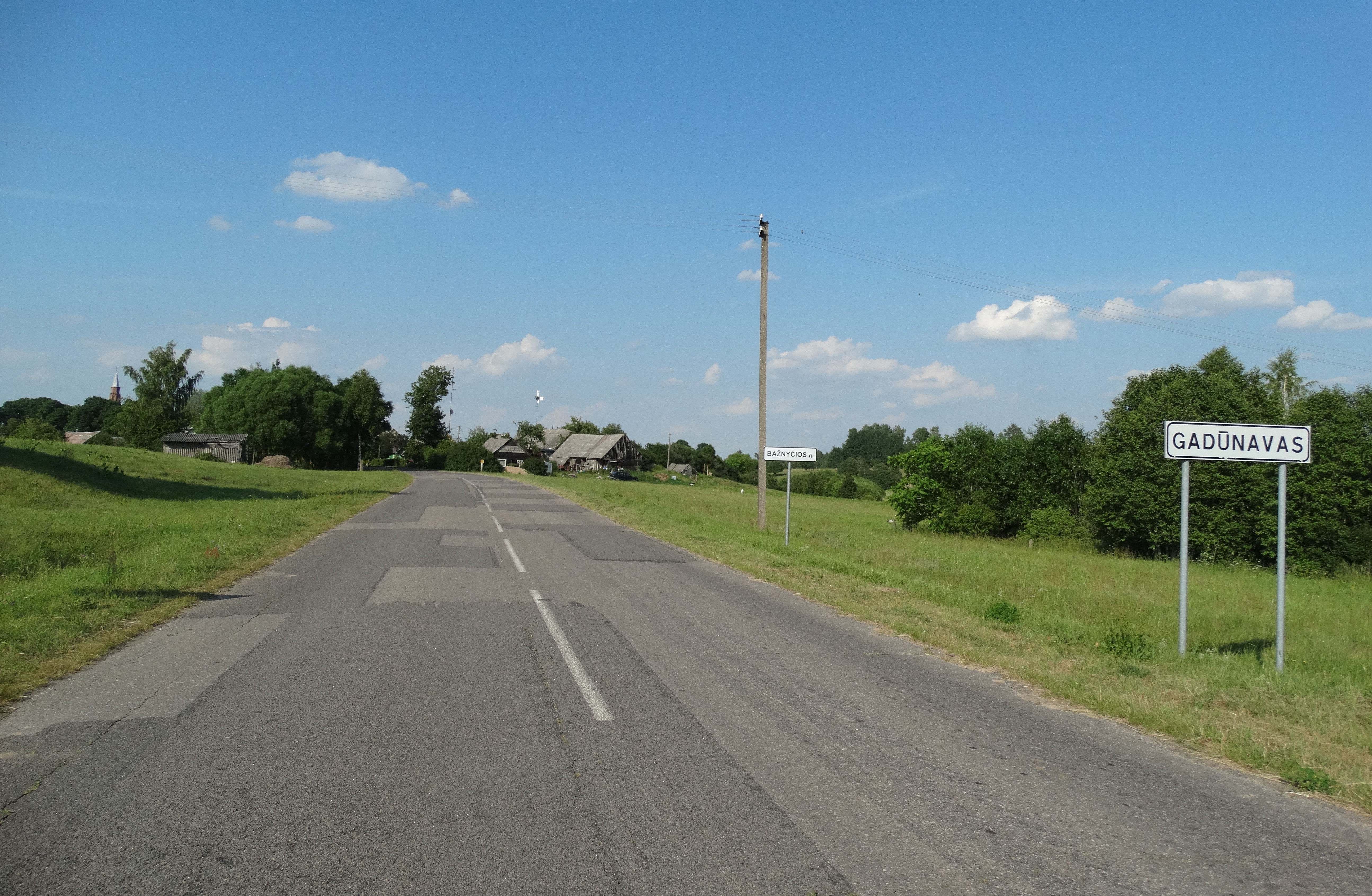 Gadūnavas, Telšiai district, Lithuania